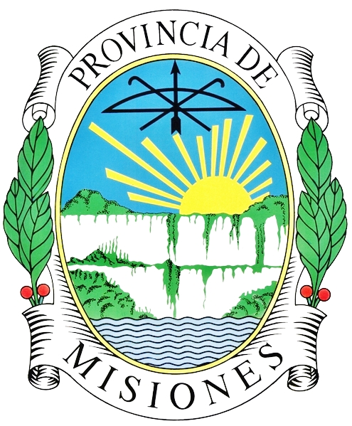 Coat of arms of Misiones Province, Argentina